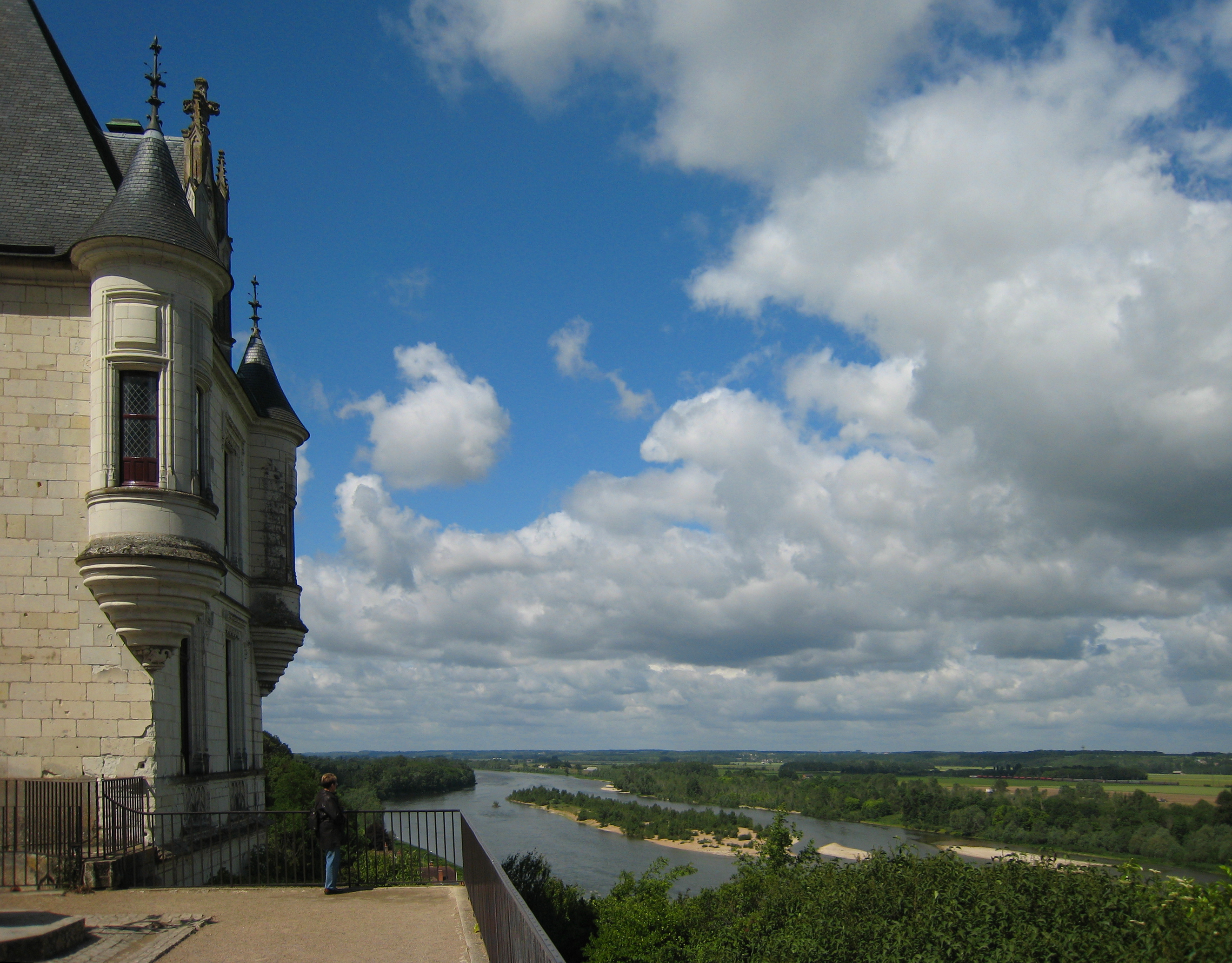 Castle Chaumont in France - view from the inner courtyard at the Loire river